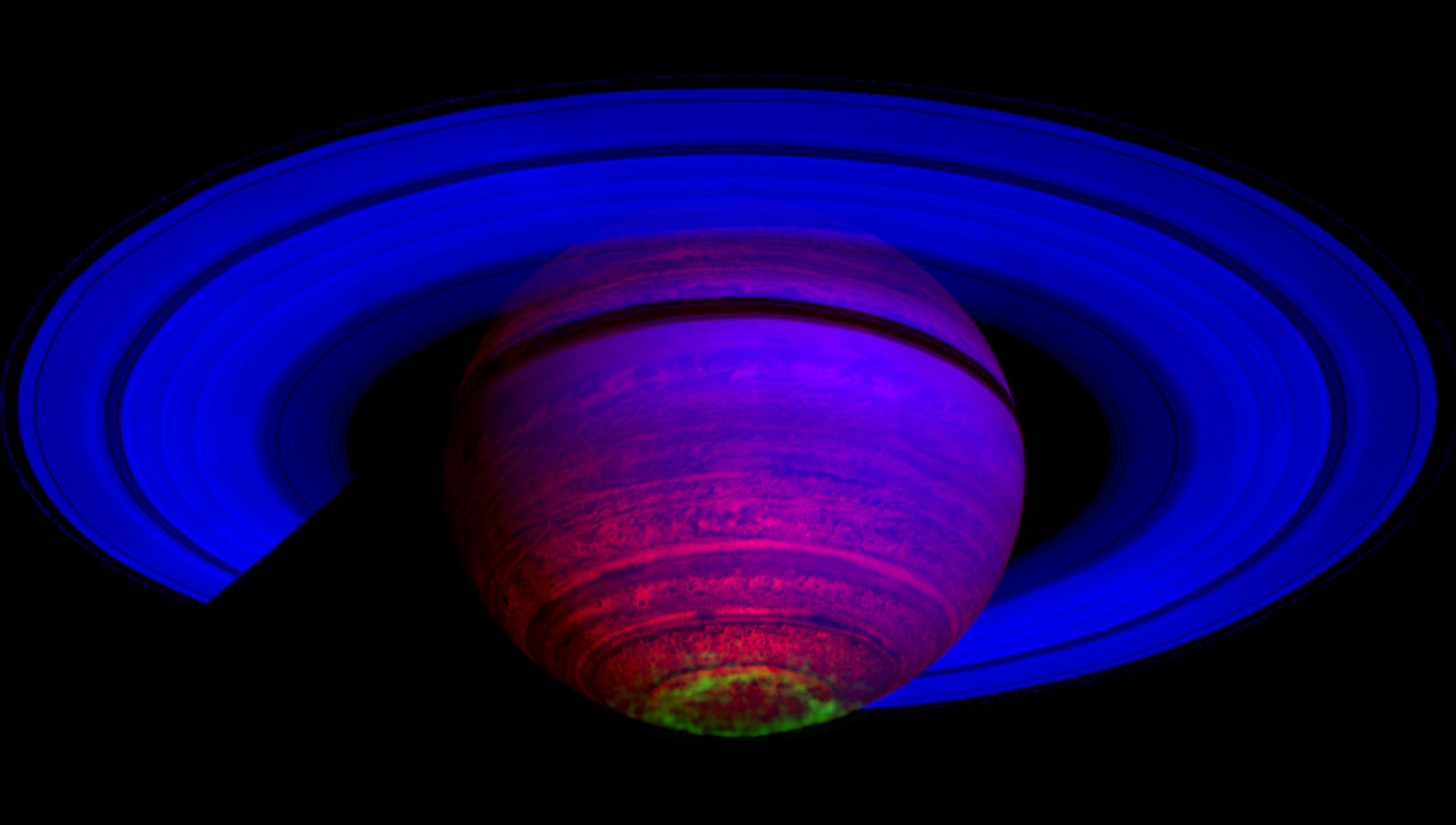 This false-colour composite image, constructed from data obtained by NASA's Cassini spacecraft, shows the glow of auroras streaking out about 1,000 kilometres from the cloud tops of Saturn's south polar region. It is among the first images released from a study that identifies images showing auroral emissions out of the entire catalogue of images taken by Cassini's visual and infrared mapping spectrometer. In this image constructed from data collected in the near-infrared wavelengths of light, the auroral emission is shown in green. The data represents emissions from hydrogen ions in of light between 3 and 4 microns in wavelength. In general, scientists designated blue to indicate sunlight reflected at a wavelength of 2 microns, green to indicate sunlight reflected at 3 microns and red to indicate thermal emission at 5 microns. Saturn's rings reflect sunlight at 2 microns, but not at 3 and 5 microns, so they appear deep blue. Saturn's high altitude haze reflects sunlight at both 2 and 3 microns, but not at 5 microns, and so it appears green to blue-green. The heat emission from the interior of Saturn is only seen at 5 microns wavelength in the spectrometer data, and thus appears red. The dark spots and banded features in the image are clouds and small storms that outline the deeper weather systems and circulation patterns of the planet. They are illuminated from underneath by Saturn's thermal emission, and thus appear in silhouette.